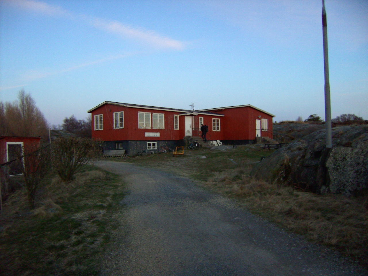 Landsort Bird Observatory, situated in Bredmar on the southern part of the island of Öja, south of Nynäshamn in Södermanland in Stockholm County in Sweden.